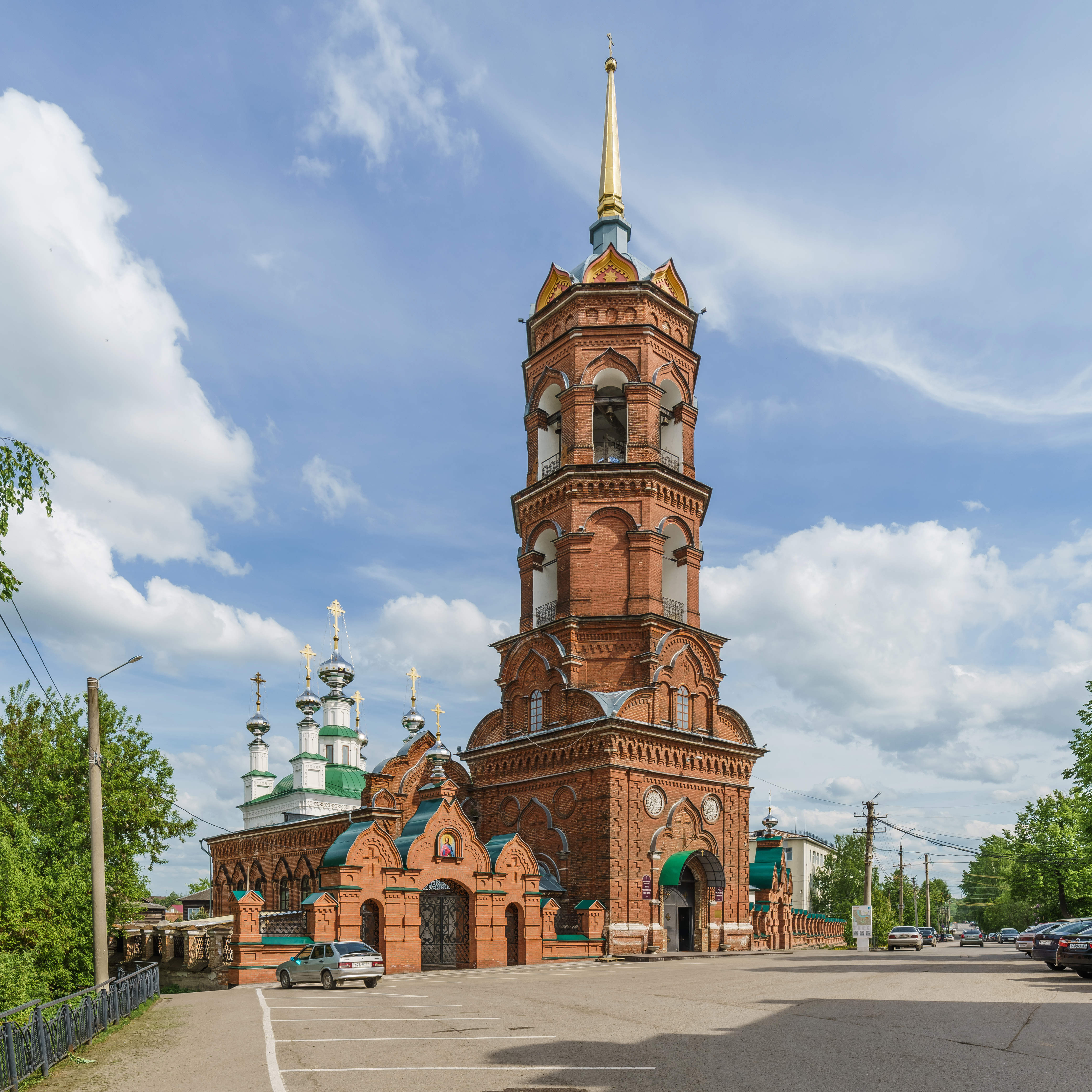 Church of Our Lady of Tikhvin in Kungur, Perm Krai, Russia